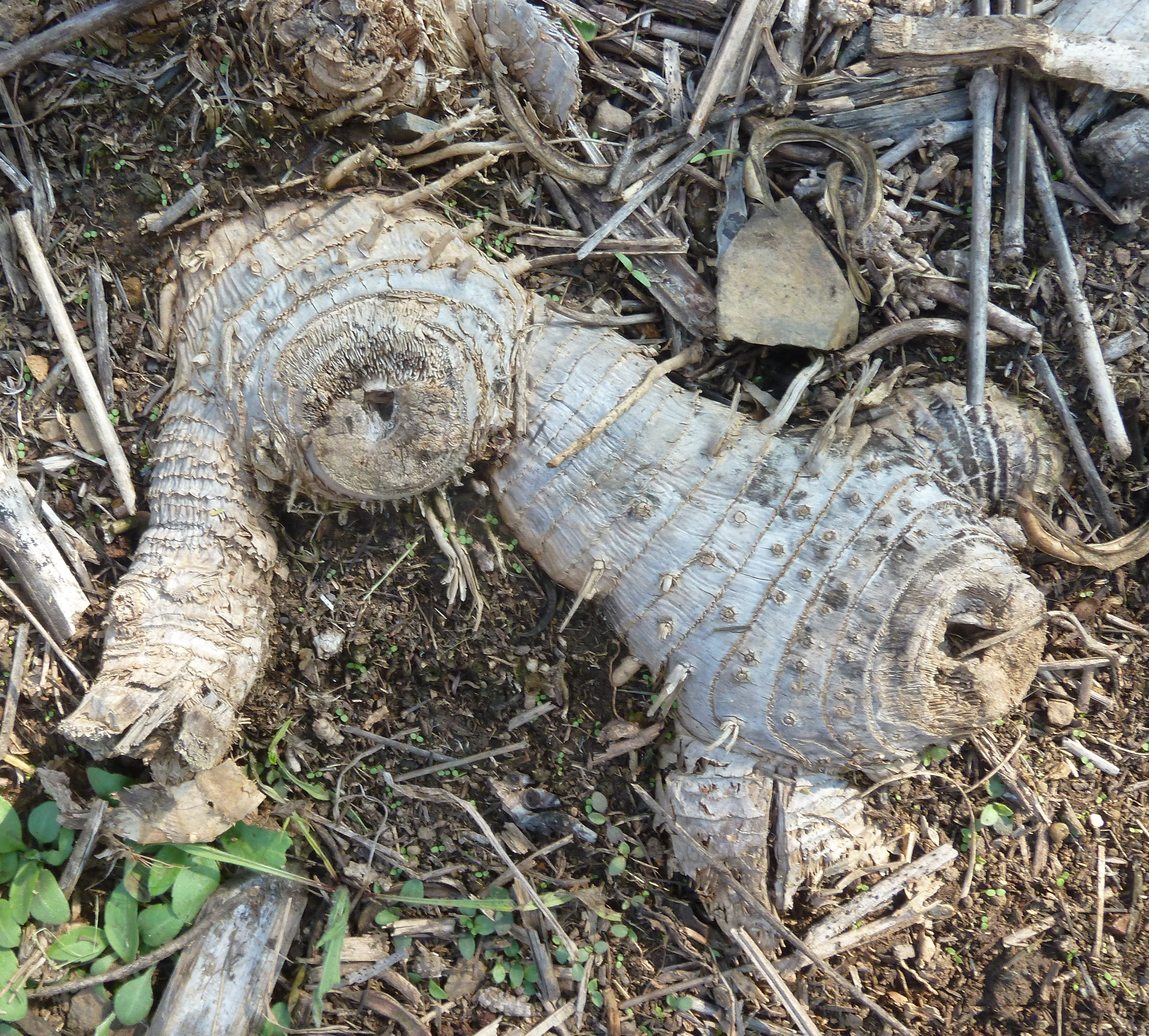 Rhizome of Giant reed in Serene Valley, Pretoria